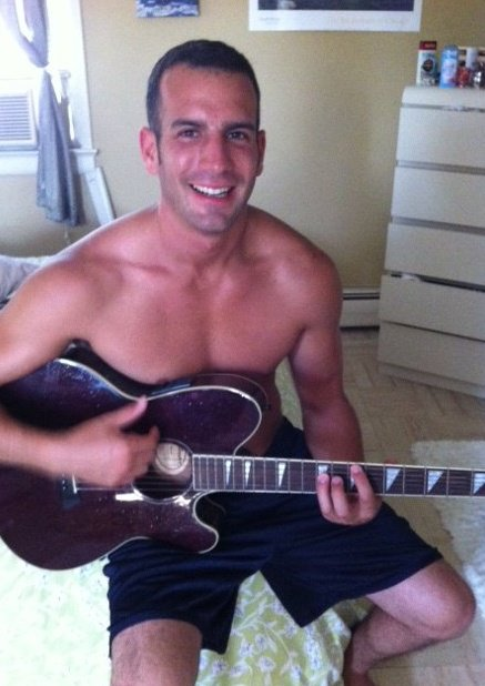 Picture of Jeff Wulkan